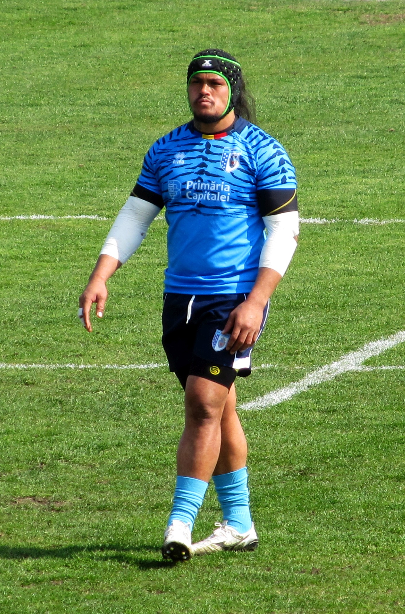 Tonga-born Romanian rugby union football player Tangimana Fonovai during the 2019 Cupa României Final match between his team, CSM București, and rivals Timișoara Saracens in March 2019